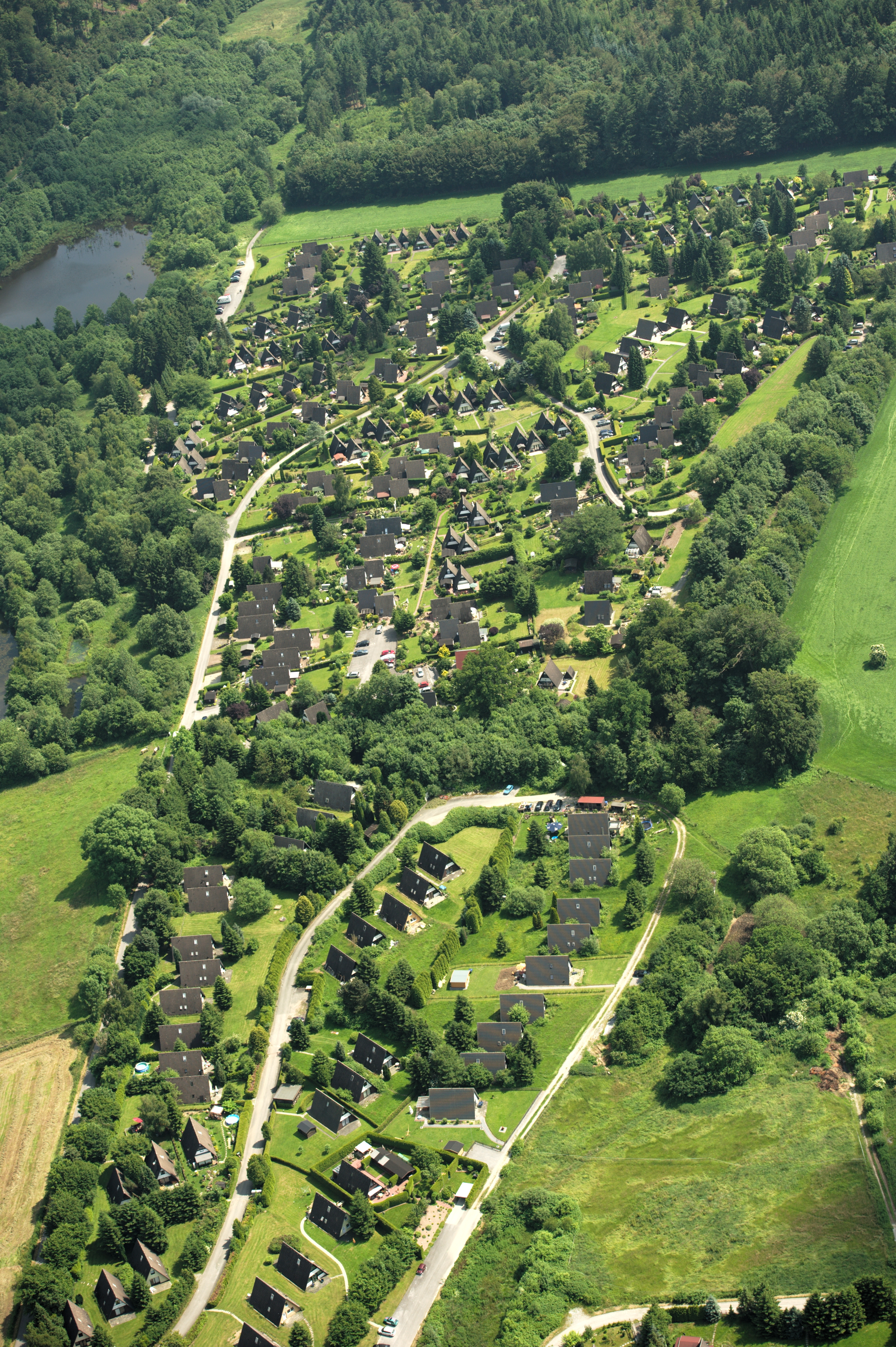 Fotoflug Sauerland-Ost; Wohnpark südöstlich von Fürstenberg, Bad Wünnenberg The making of this document was supported by the Community-Budget of Wikimedia Germany.